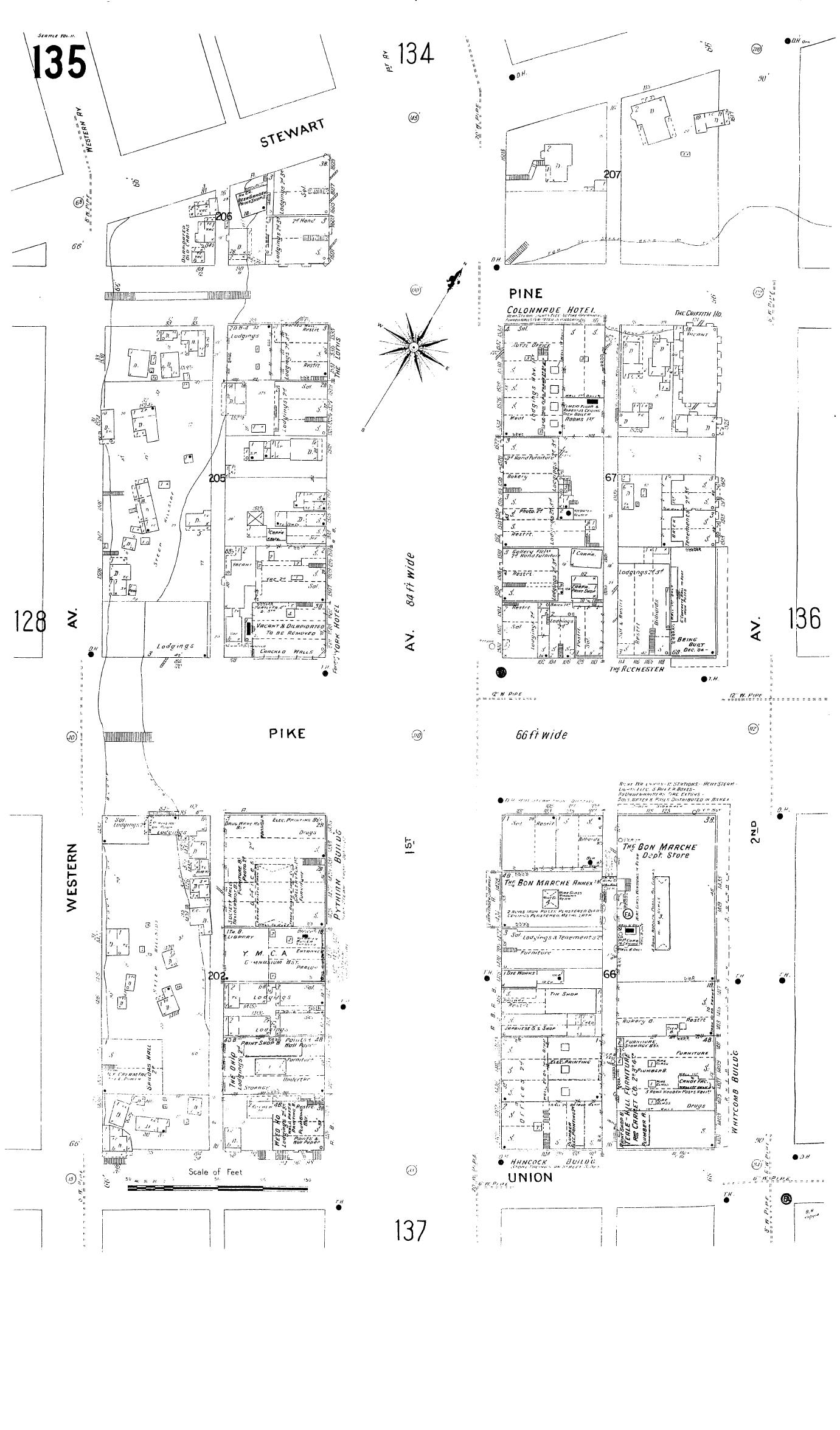 1905 map of part of Seattle, Washington. The map extends from Western Avenue northeast to Second Avenue and from Union Street northwest roughly to Stewart Street. The left half of what is visible here now falls within the city-designated Pike Place Market Historical District. The remainder is the part of the downtown core.